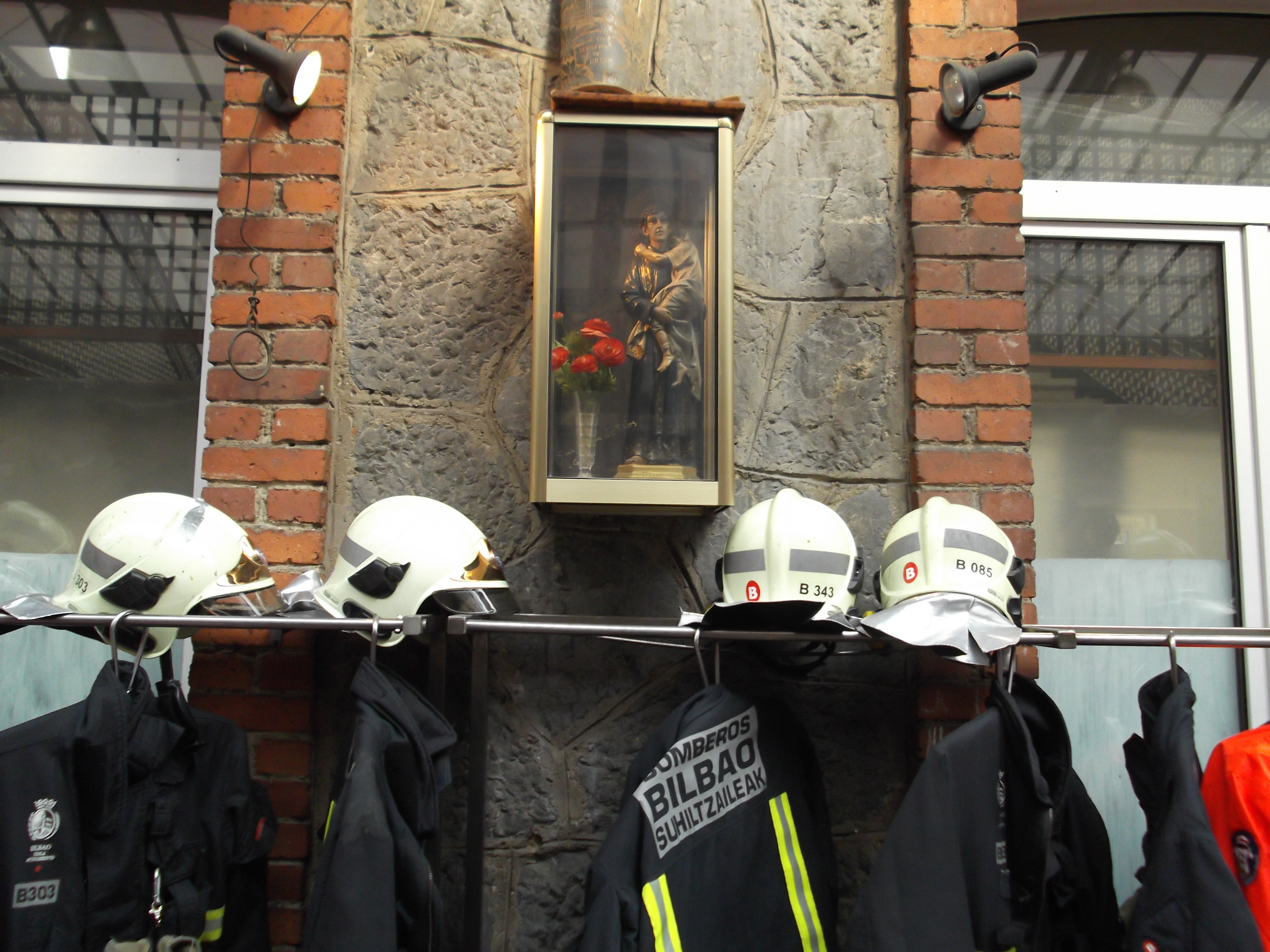 Image of Saint John of God in the Bilbao firefigthers headquarters.